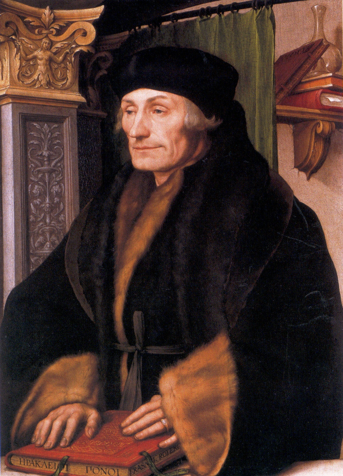 Portrait of Desiderius Erasmus of Rotterdam with Renaissance Pilaster. Desiderius Erasmus of Rotterdam (1466/69–1536) was a renowned humanist scholar and theologian. He moved in 1521 to Basel, the city where Hans Holbein the Younger lived and had his workshop. Such was the fame of Erasmus, who corresponded with scholars throughout Europe, that he needed many portraits of himself to send abroad. Holbein painted three much-copied portraits of Erasmus in 1523, of which this is the largest and most elaborate. It is likely the one sent to William Warham, Archbishop of Canterbury, in England. Holbein later painted Warham after he travelled to England in 1526 in search of work, with a recommendation from Erasmus, who had once lived in England himself. Holbein's portrait of Erasmus includes a Latin couplet by the scholar, inscribed on the edge of the leaning book on the shelf, which states that Holbein would rather have a slanderer than an imitator. According to art historian Stephanie Buck, this portrait is "an idealized picture of a sensitive, highly cultivated scholar, and this was precisely how Erasmus wanted to be remembered by future generations" (Stephanie Buck, Hans Holbein, Cologne: Könemann, 1999, ISBN 3829025831, p. 50).